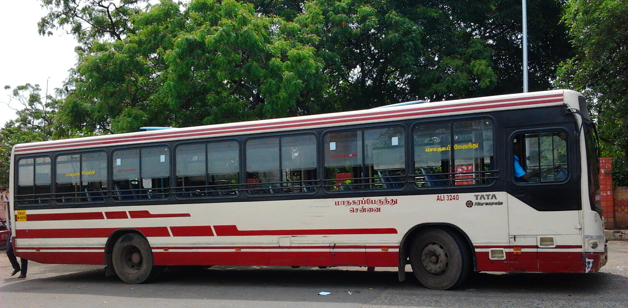 Chennai Metropolitan Transport Corporation's Tata Motors Marcopolo bus parked at the Anna Square Bus stand.